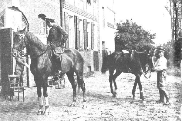 ascot and nishi in berlin olympic